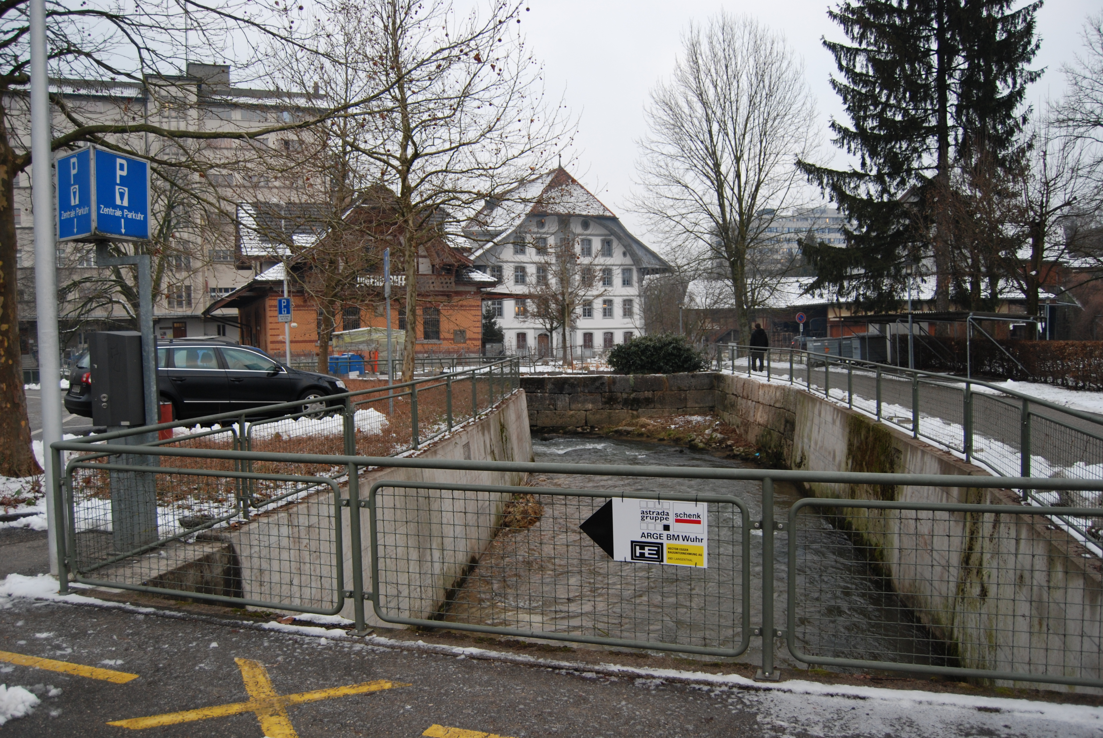 River Langete, youth center and culture center Alte Mühle at Langenthal, canton of Bern, SwitzerlandEsperanto: Rivero Langete junularcentro kaj kulturcentro Alt Mühle (Malnova Muelejo) en Langenthal, Kantono Berno, Svislando